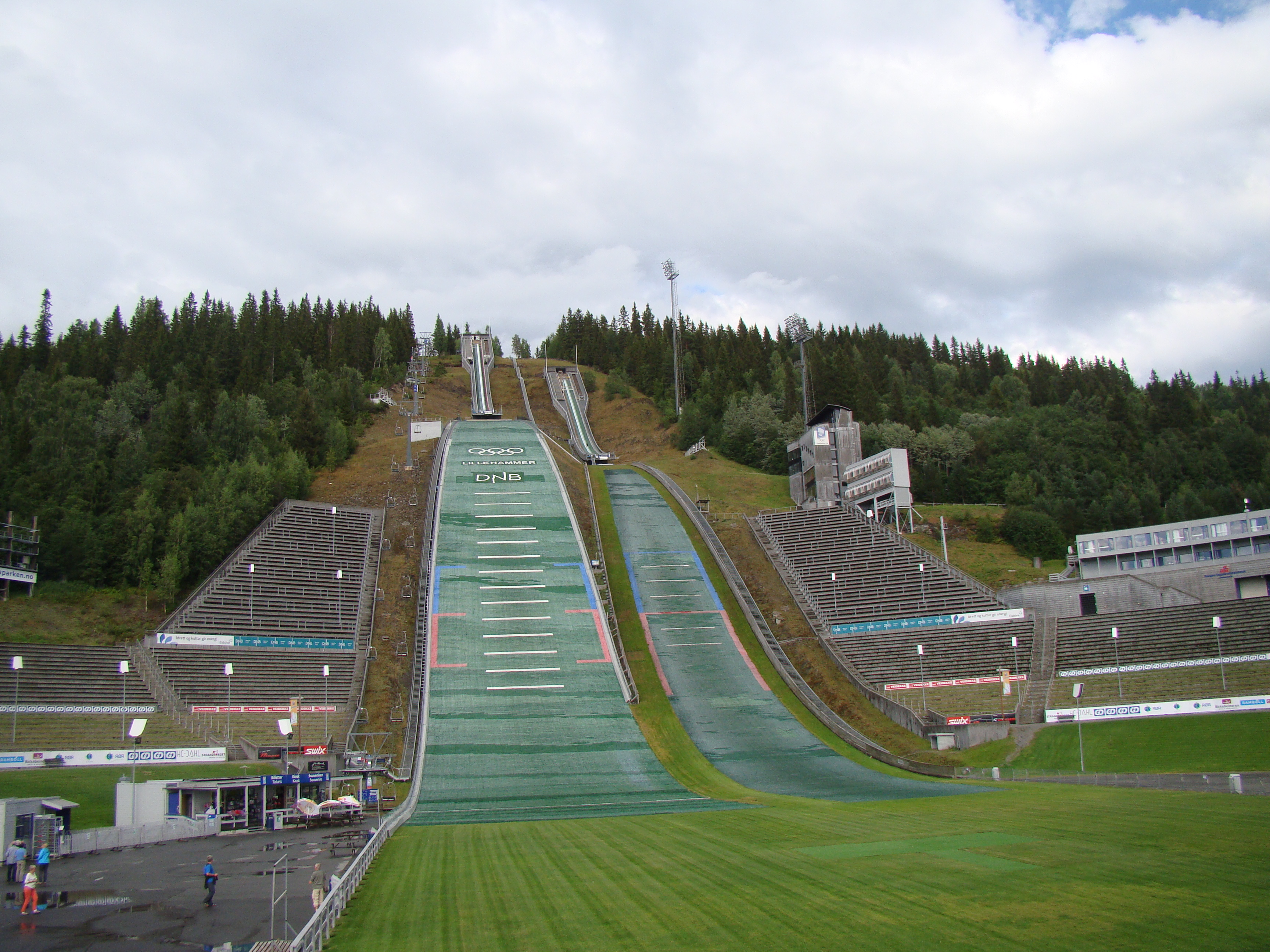 Lysgårdsbakken (Lillehammer)